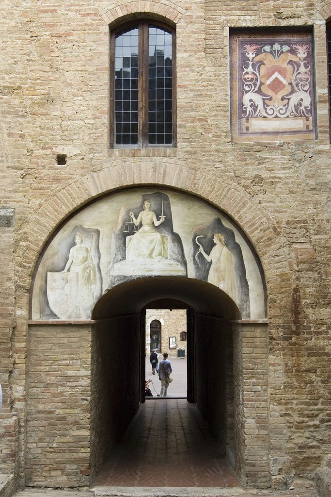 see above